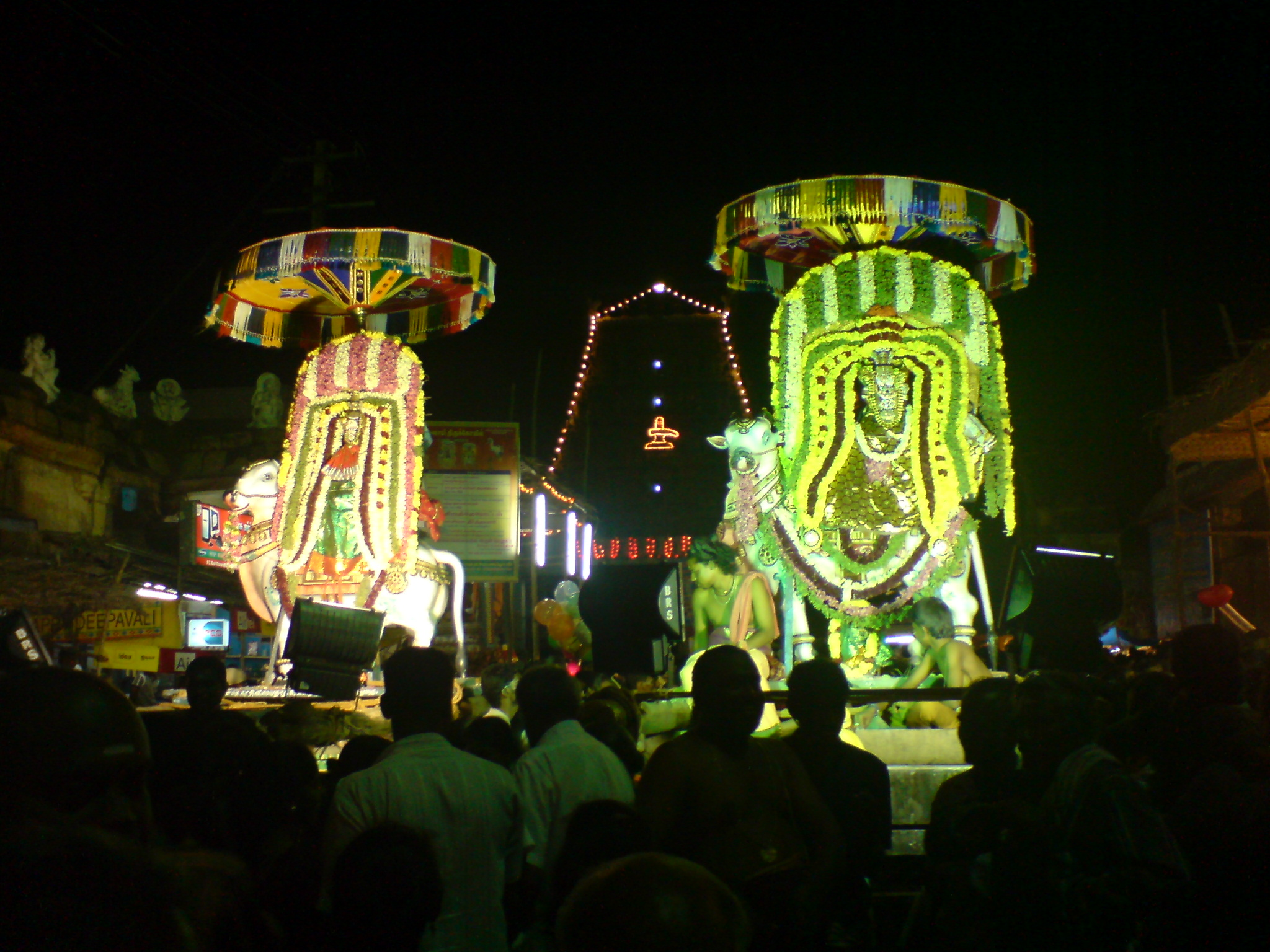 Hindu temple, kumbakonam, masimagam